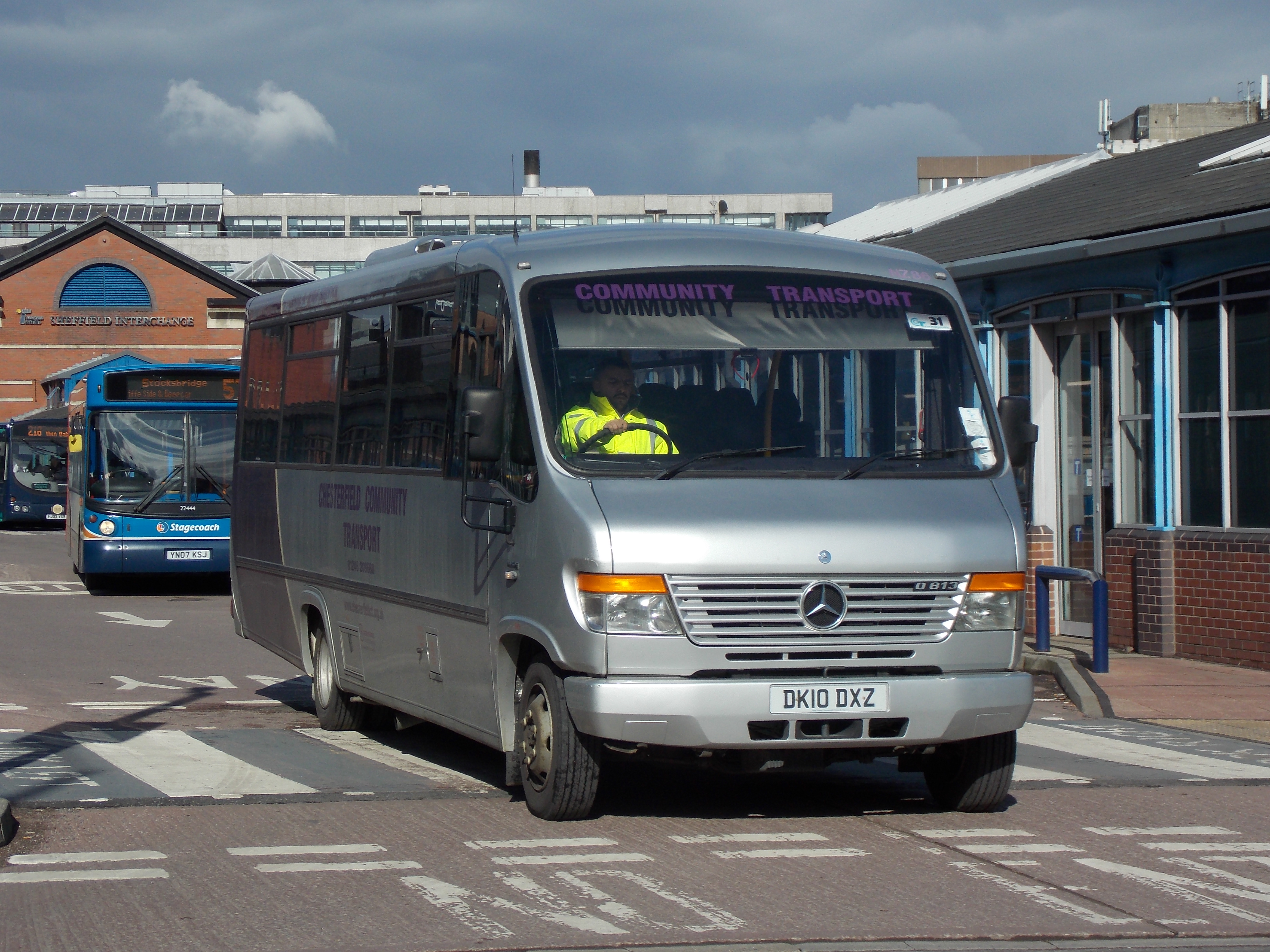 DK10DXZ (NZ86), a Mellor-bodied Mercedes-Benz O813D Vario operated by Chesterfield Community Transport, seen at Sheffield Interchange on 5 March 2016.